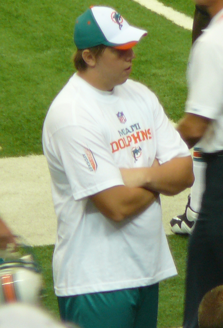 If used somewhere other than Wikipedia, Nelson, by name.